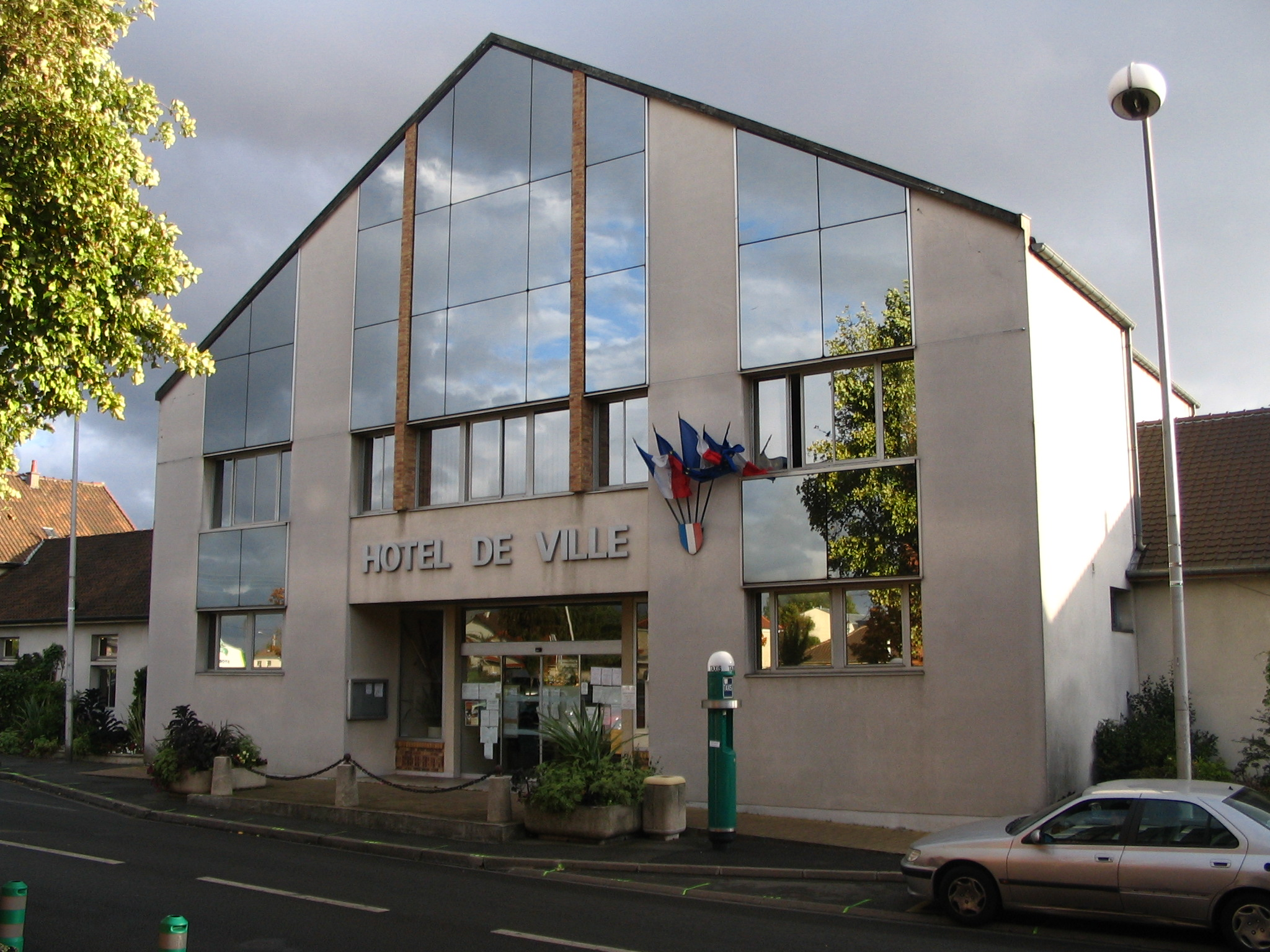 The town hall of Chennevières-sur-Marne, Val-de-Marne, France.